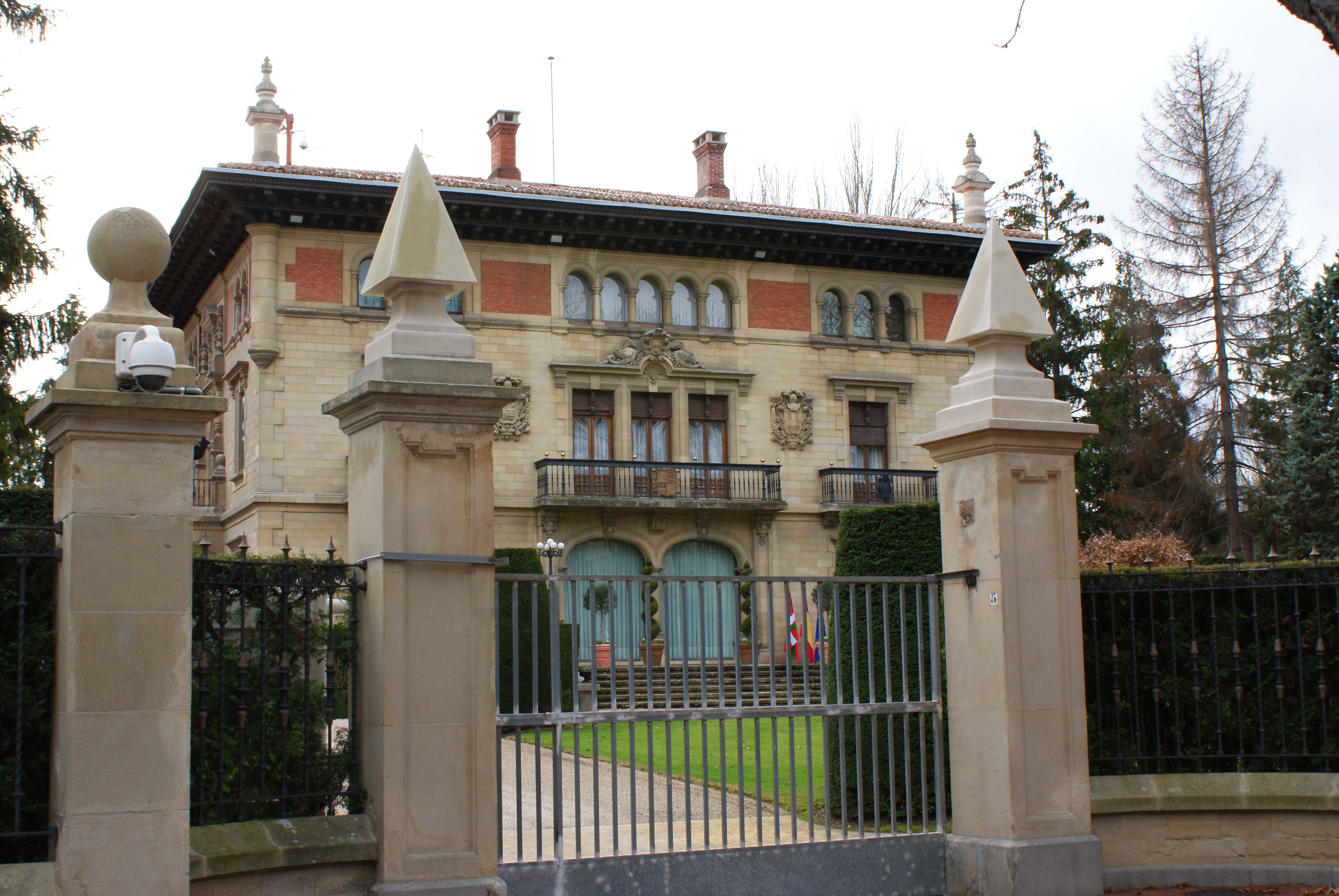 Front view of Ajuria Enea, official residence of Basque Autonomous Community Lehendakari (president)